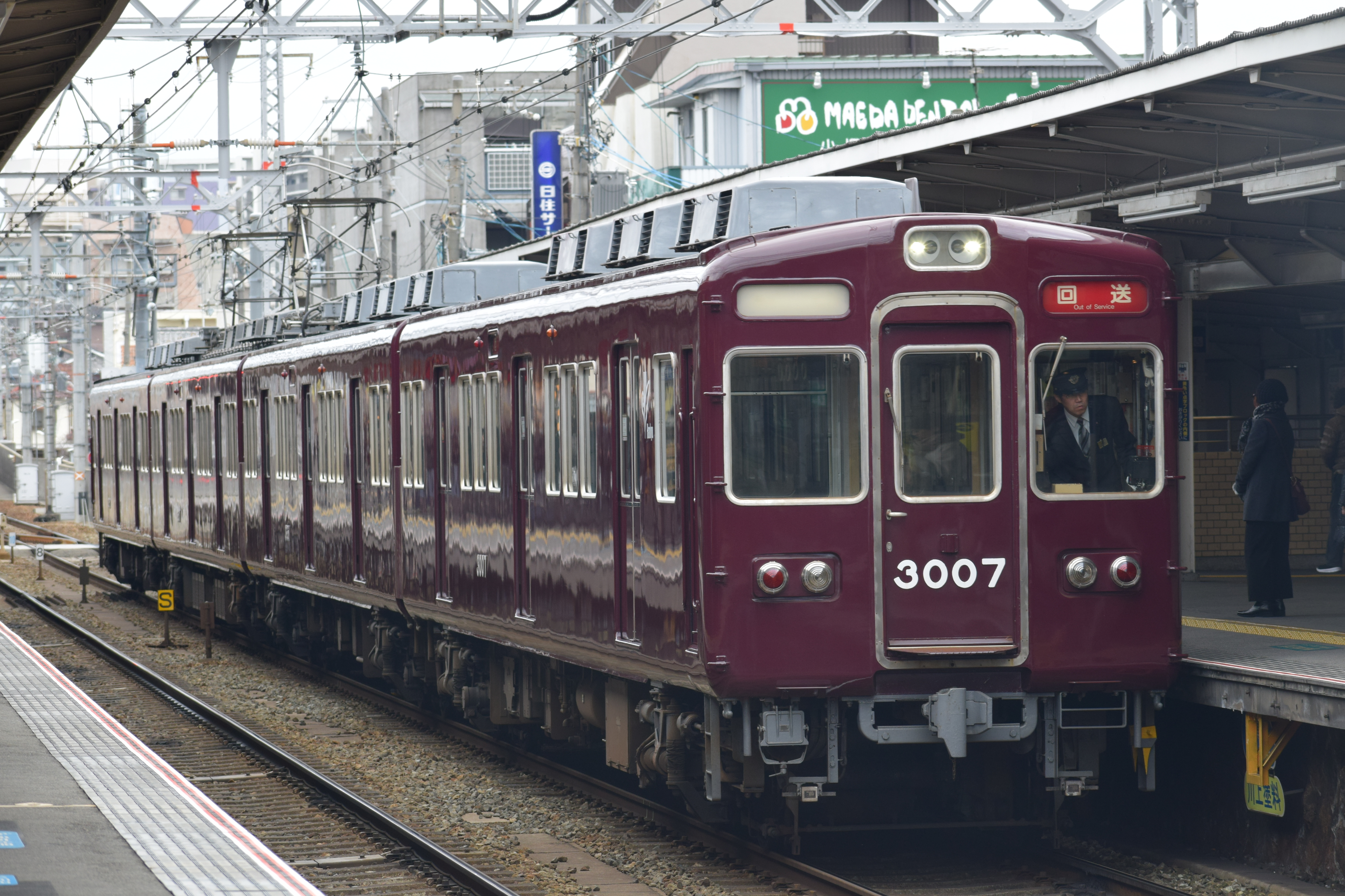 Hankyu3052F